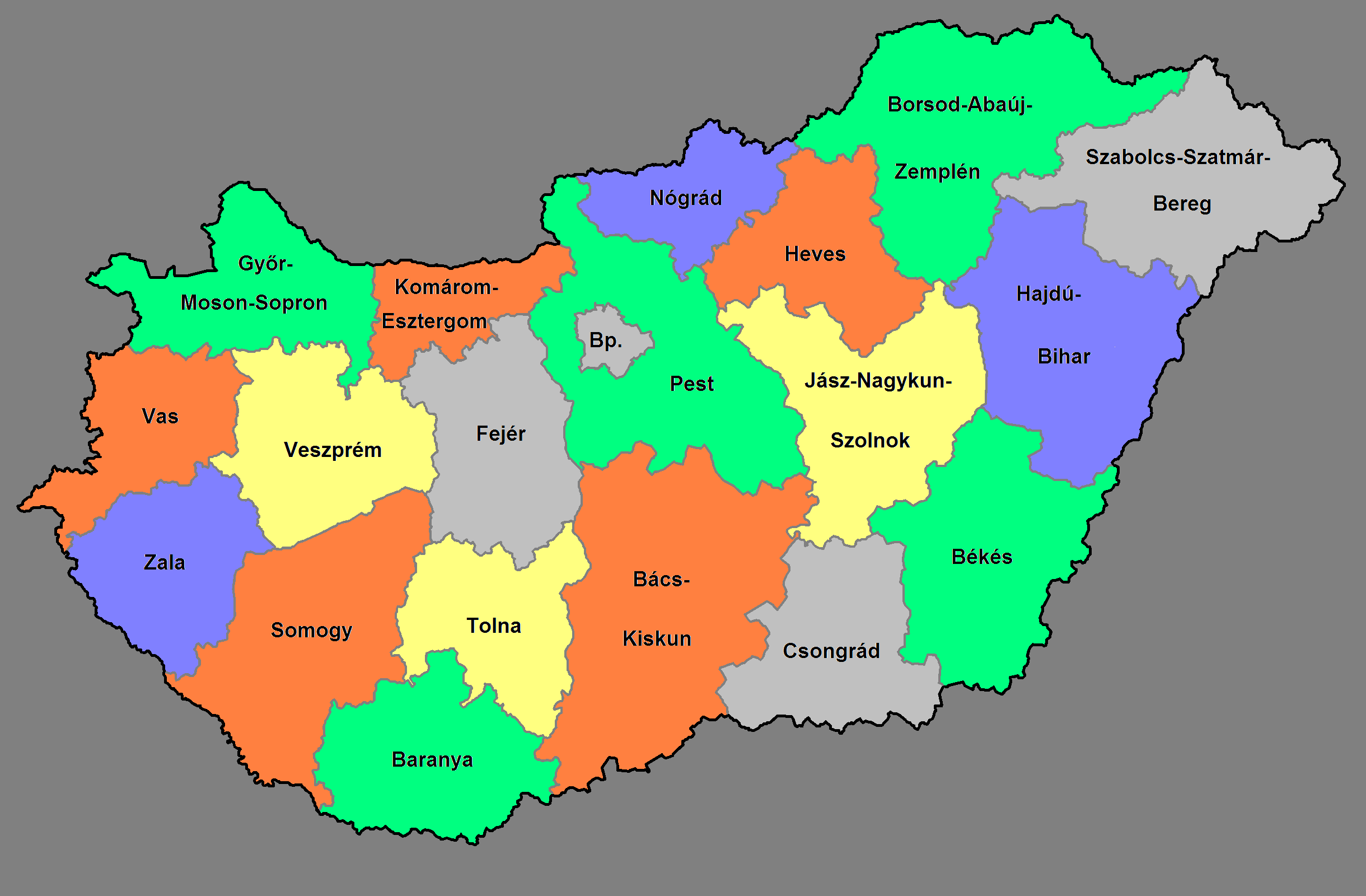 Hungary, Counties & Capital (i.e. NUTS3 regions)